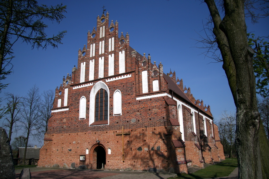 Wizna - Parish church of Saint John the Baptist